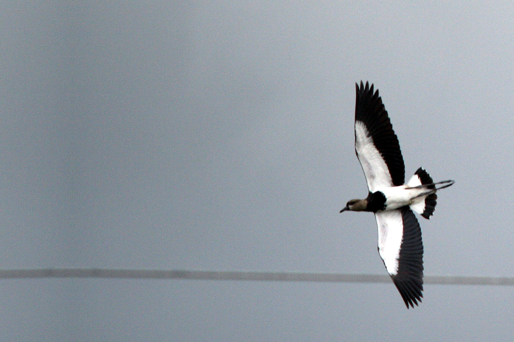 Vanellus chilensis in flight